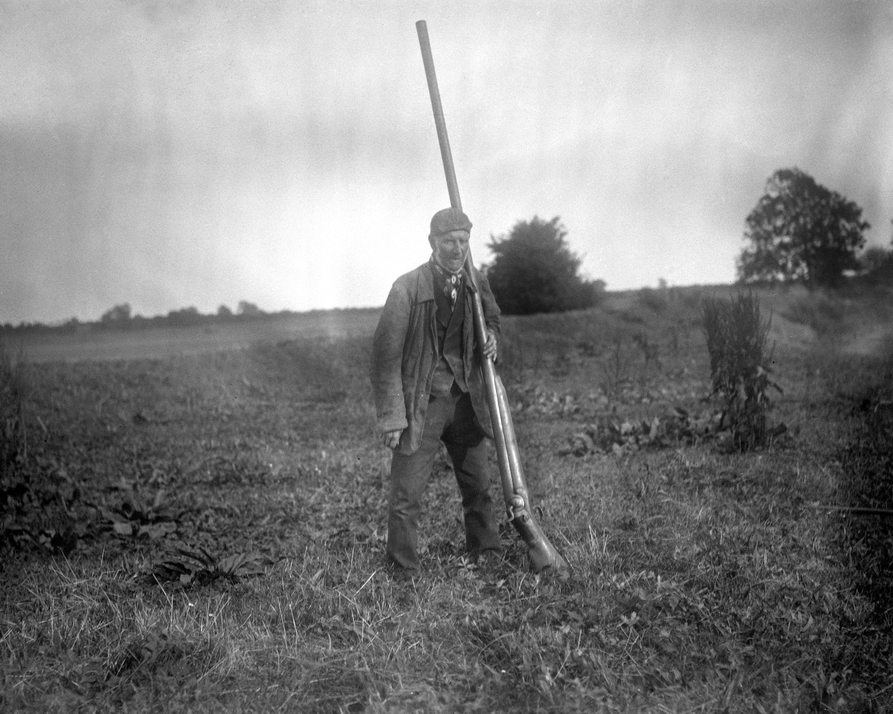 Snowden Slights with a punt gun